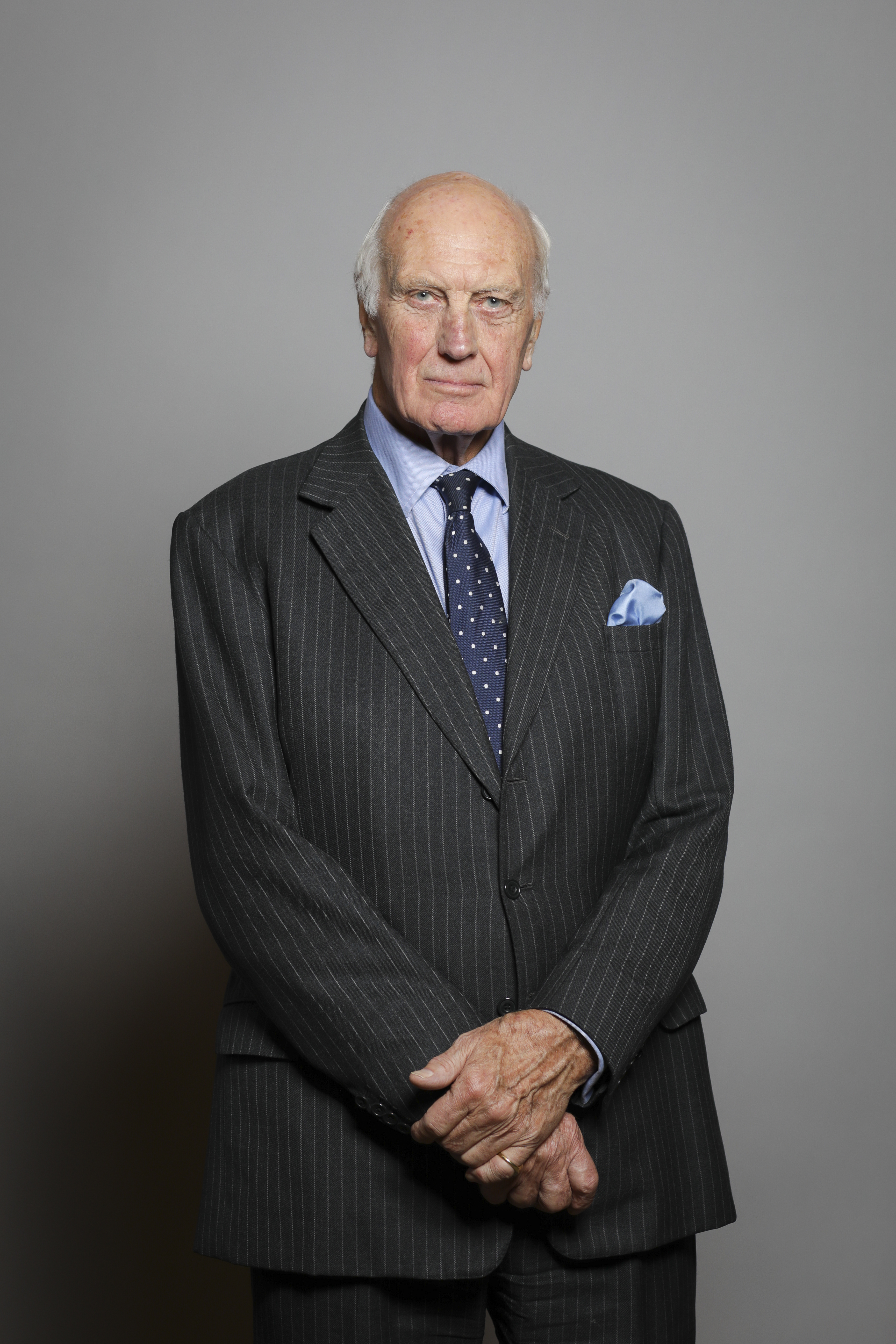 Official portrait of Lord Dear Full sized portrait of Lord Dear